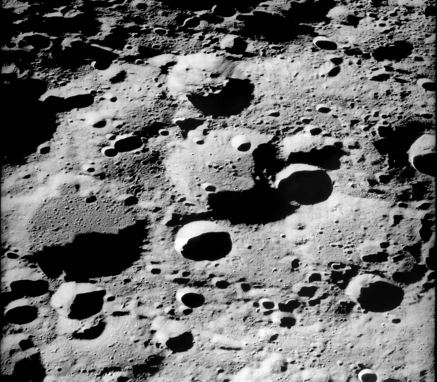 Oblique view of Bečvář crater (center), facing southeast, on the far side of the moon. The large crater spanning the frame is unnamed. Taken by Apollo 16 panoramic camera shortly after trans-earth injection.